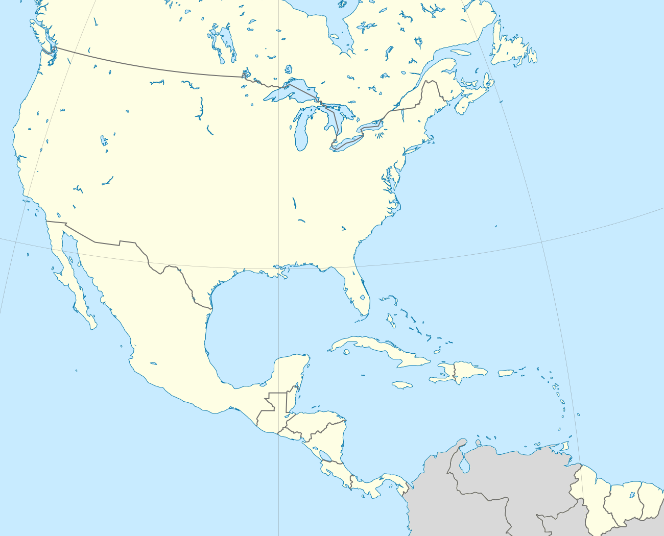 Map of all CONCACAF countries, covering all locales with a major club. To be used in CONCACAF Champions League articles. Stretches far enough north to reach Edmonton, west to reach California coast, and south and east to reach the Guianas.